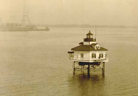 1925 photograph of Greenbury Point Light